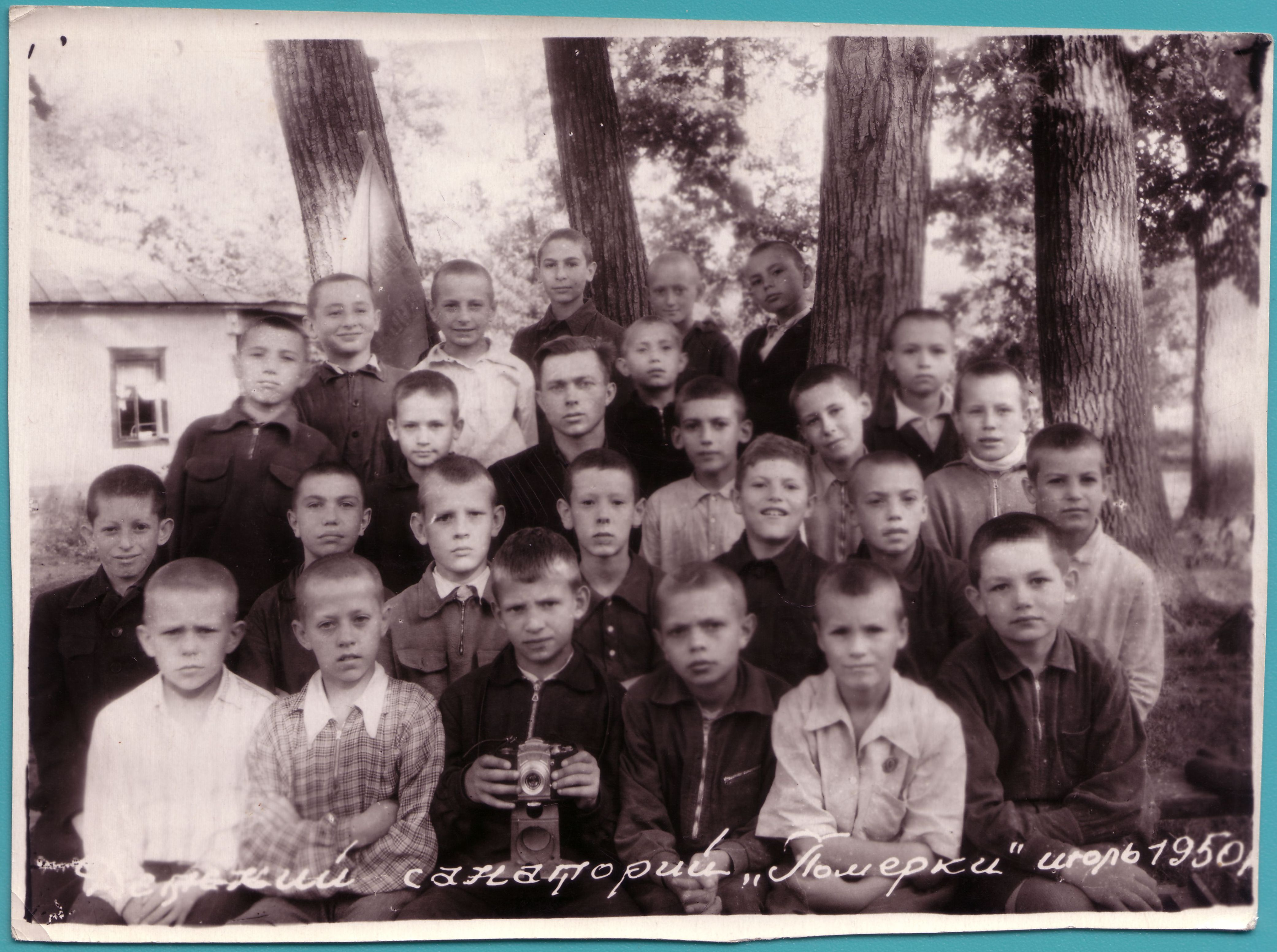 "Pomerki" child sanatory in Kharkov. Summer 1950. Exakta photocamera.